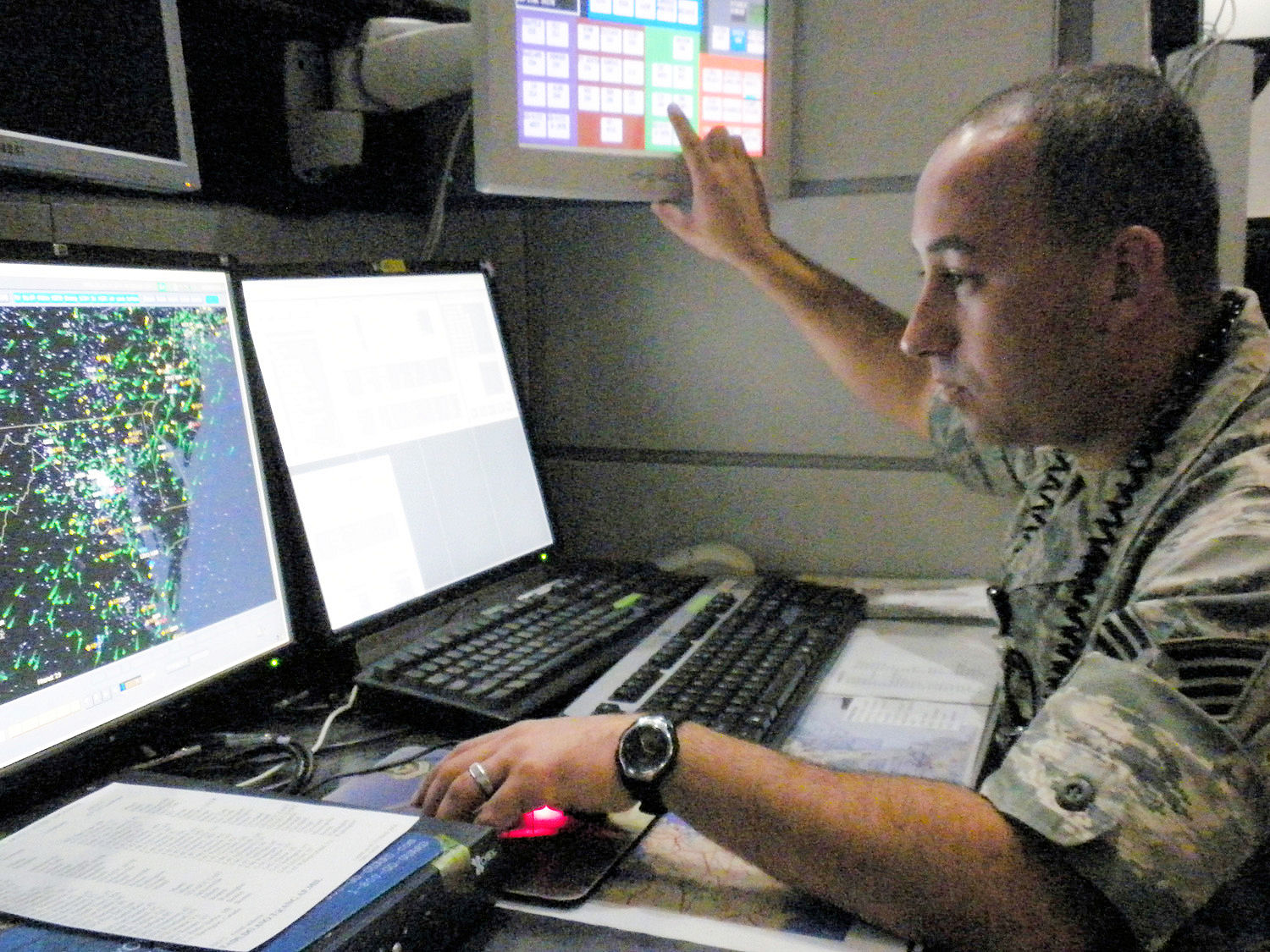 Staff Sgt. Jose Ortiz concentrates on the air defense mission at the Eastern Air Defense Sector. He was selected as National Guard Bureau's Command and Control Division's NCO Outstanding Aircraft and Warning Systems Operator of the Year.